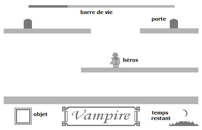 Interface of the video game Vampire (1986)